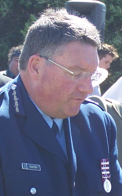 Police Commissioner Howard Broad at the Bledisloe Reception at Waitangi on 5 February 2010